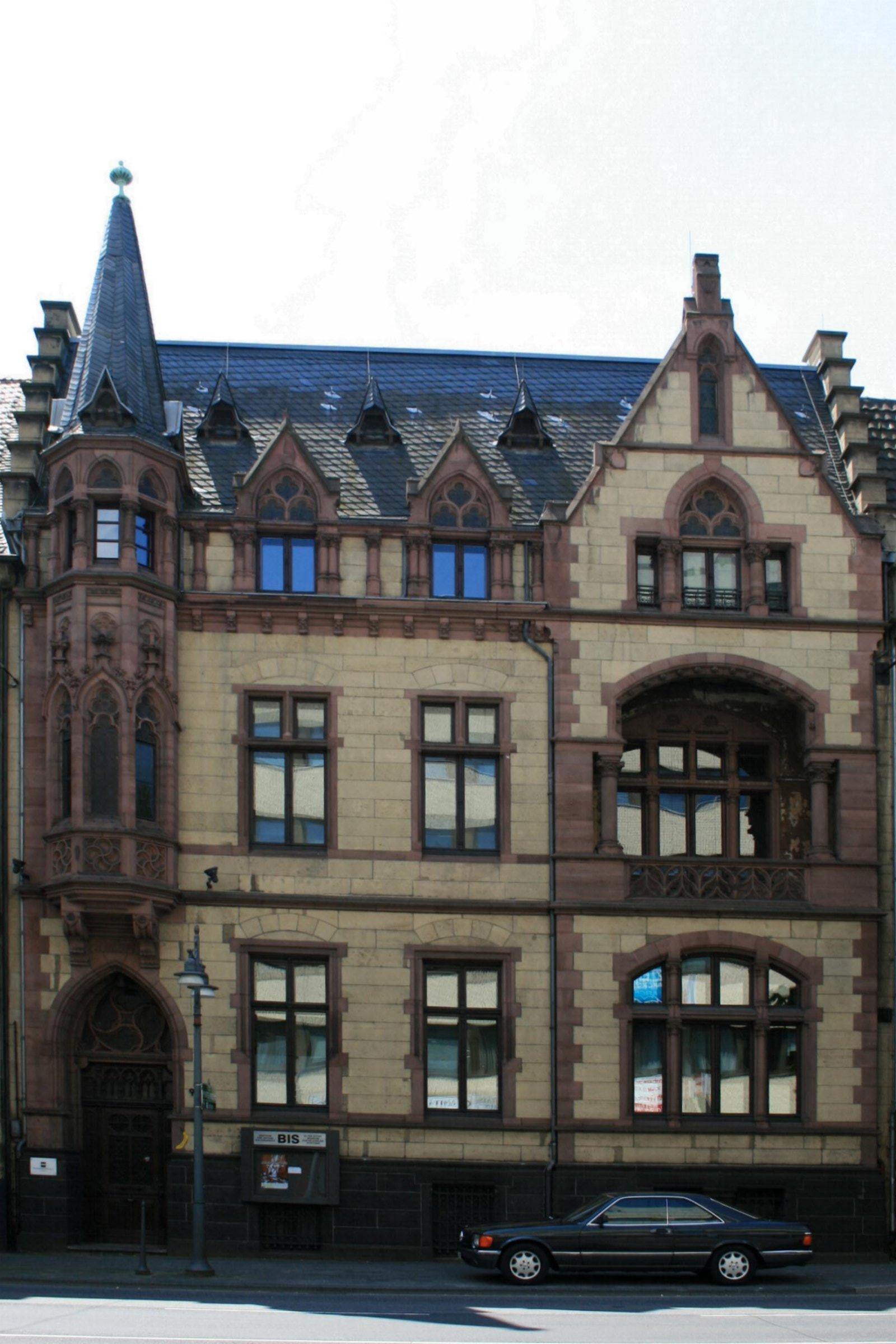 Cultural heritage monument No. B 032 in Mönchengladbach